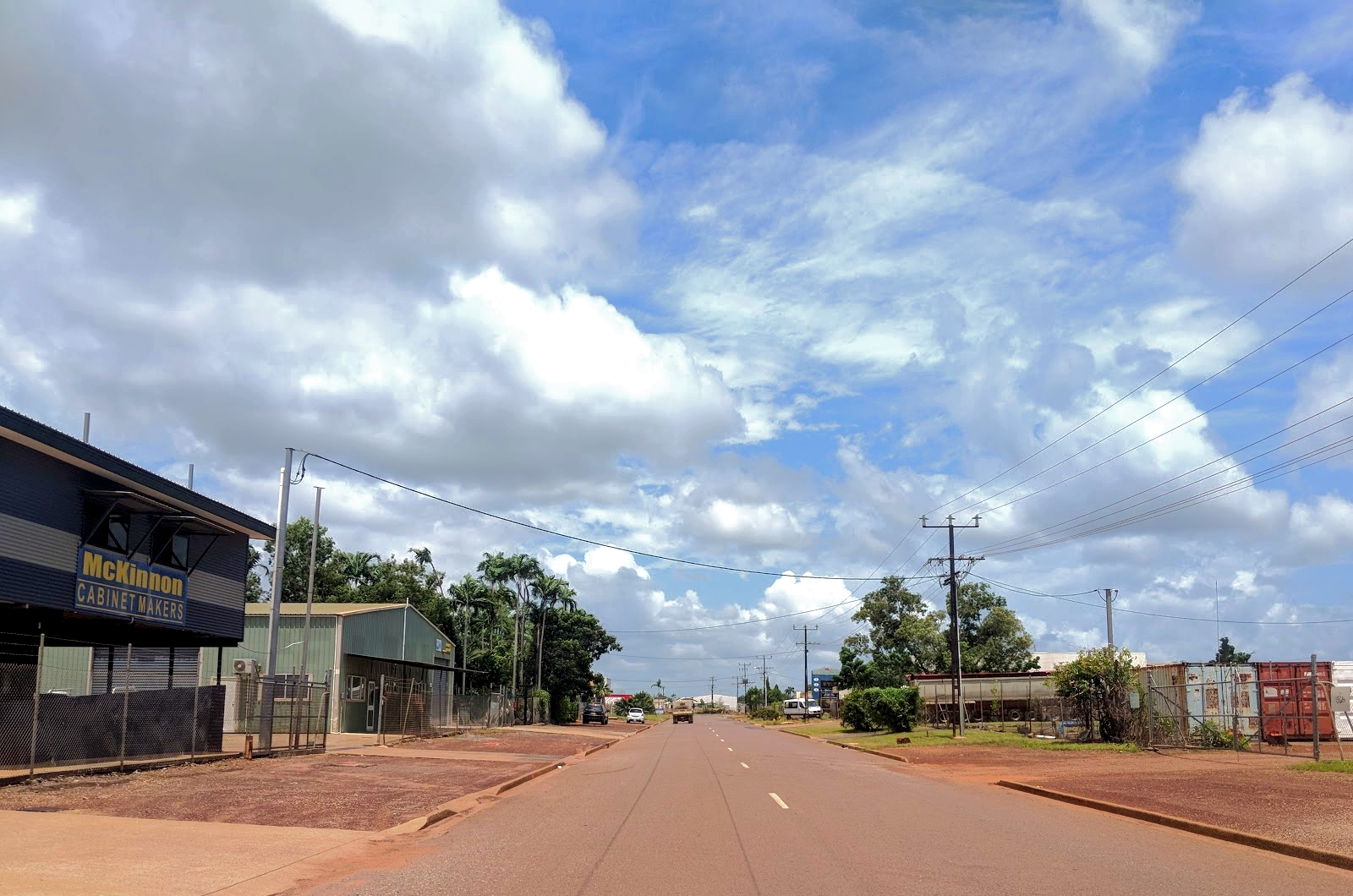 A cloudy sky over McKinnon Road in Pinelands, Northern Territory.